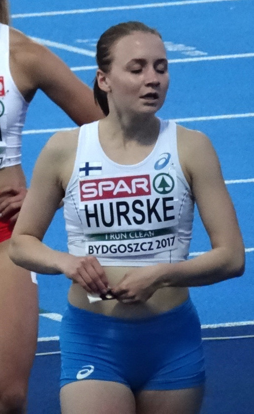 Reetta Hurske at the women's 100 metres hurdles semifinal of the 2017 European Athletics U23 Championships.